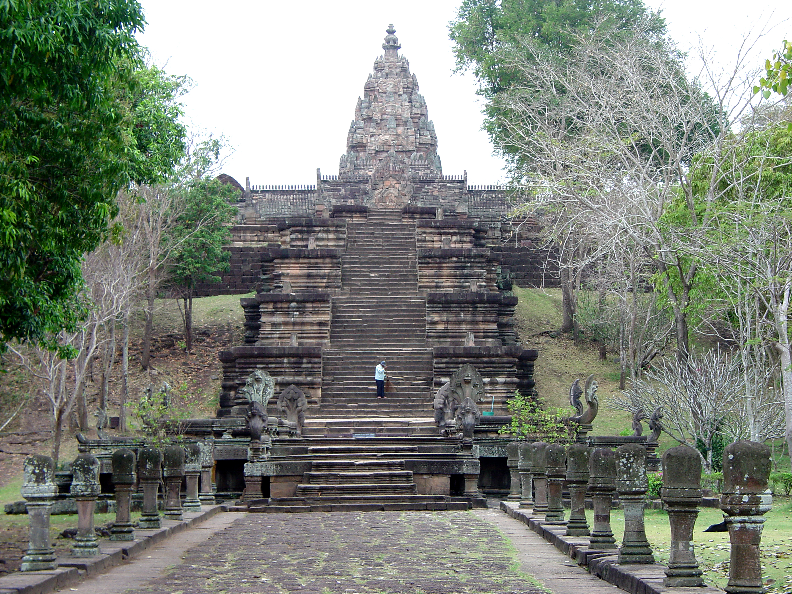 Phnom Rung, on the royal road between Angkor and Phimai, was built early in the reign of Suryavarman II (1112-1152) by Narendraditya, a local ruler and kinsman of the king. The east-facing axial temple is built upon a hill ("phnom" means "hill" in the Khmer language). The temple is approached by a long east-west causeway (160m, or 530') that is lined with lotus-bud posts. The west end of the causeway is seen in this photo, where it abuts a naga bridge like the one at Phimai. Crossing over the platform, one climbs the stairs to reach the temple enclosure. Phnom Rung was built after Phimai and before Angkor Wat. It has several design features in common with both, particularly the use of naga bridges and the Khmer-type tower pioneered at Phimai. Yet, there is not a sense of progressive development in these three temples; Phnom Rung goes its own way, with a distinct triangular shape to its tower and an antarala (antechamber) between the entrance hall and sanctuary.